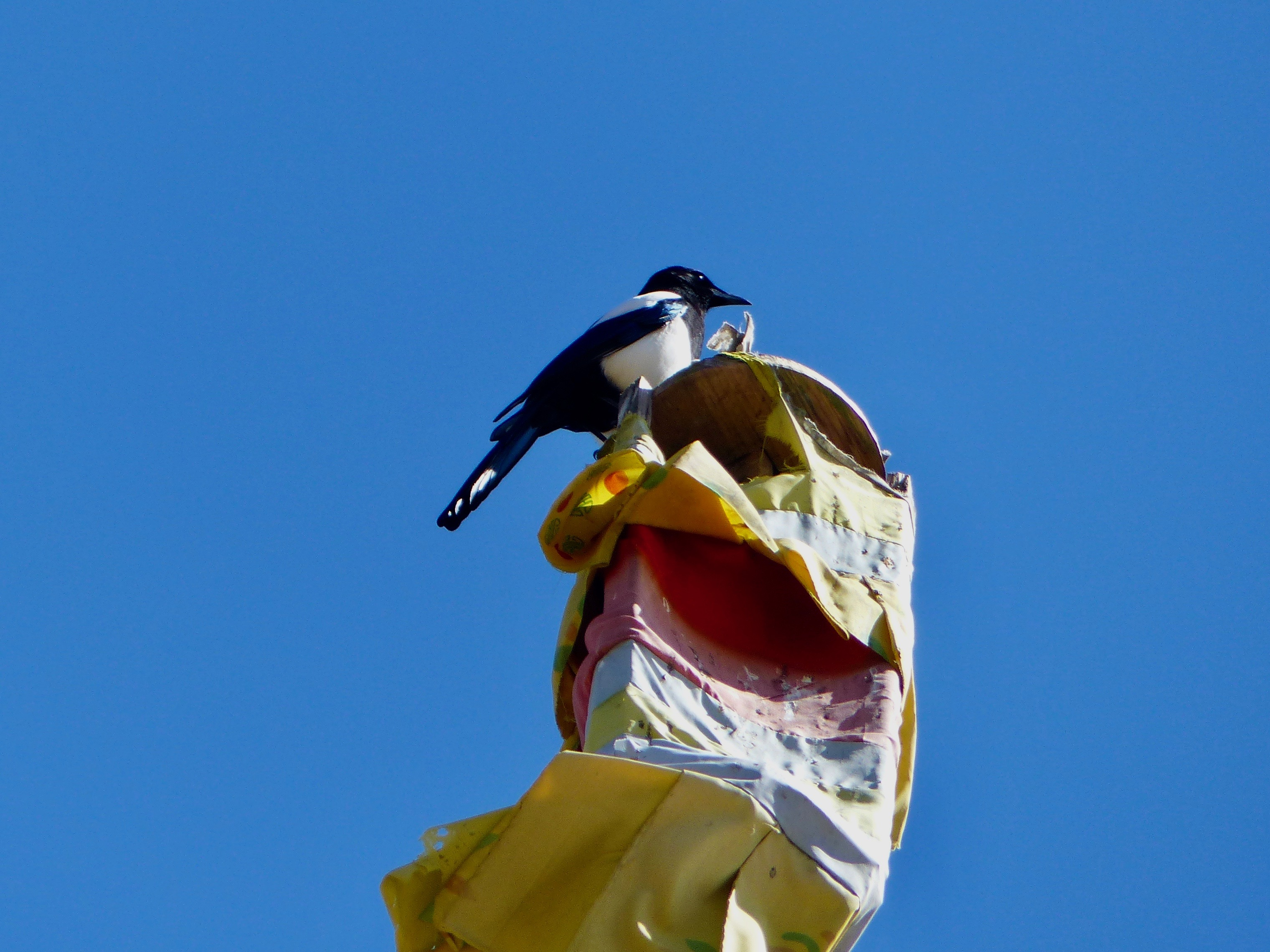 Black-rumped Magpie Pica bottanensis, Bumthang Valley, Bhutan.